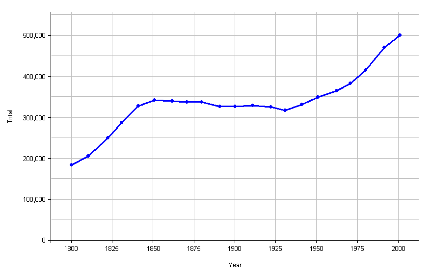 Graph of Cornwall population 1800-2000